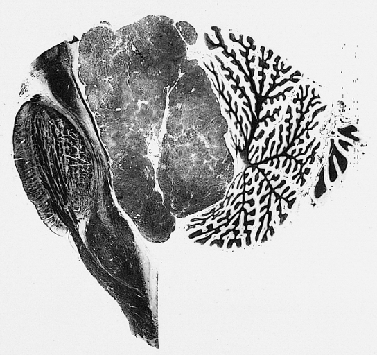 CNS: EPENDYMOMA The discrete nature of ependymomas, as well as their tendency to involve the ventricular system, is well illustrated in this whole mount histologic section of a fourth ventricle lesion.